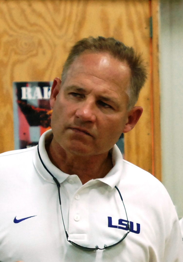 Vincent Naimoli, right, owner of the Tampa Bay Devil Rays, and Les Miles, center, head coach of the Louisiana State University football team, talk to a U.S. Army Soldier from 1st Battalion, 187th Infantry Regiment, 101st Airborne Division at Forward Operating Base Summerall, Iraq, June 22, 2006, as part of a USO tour.